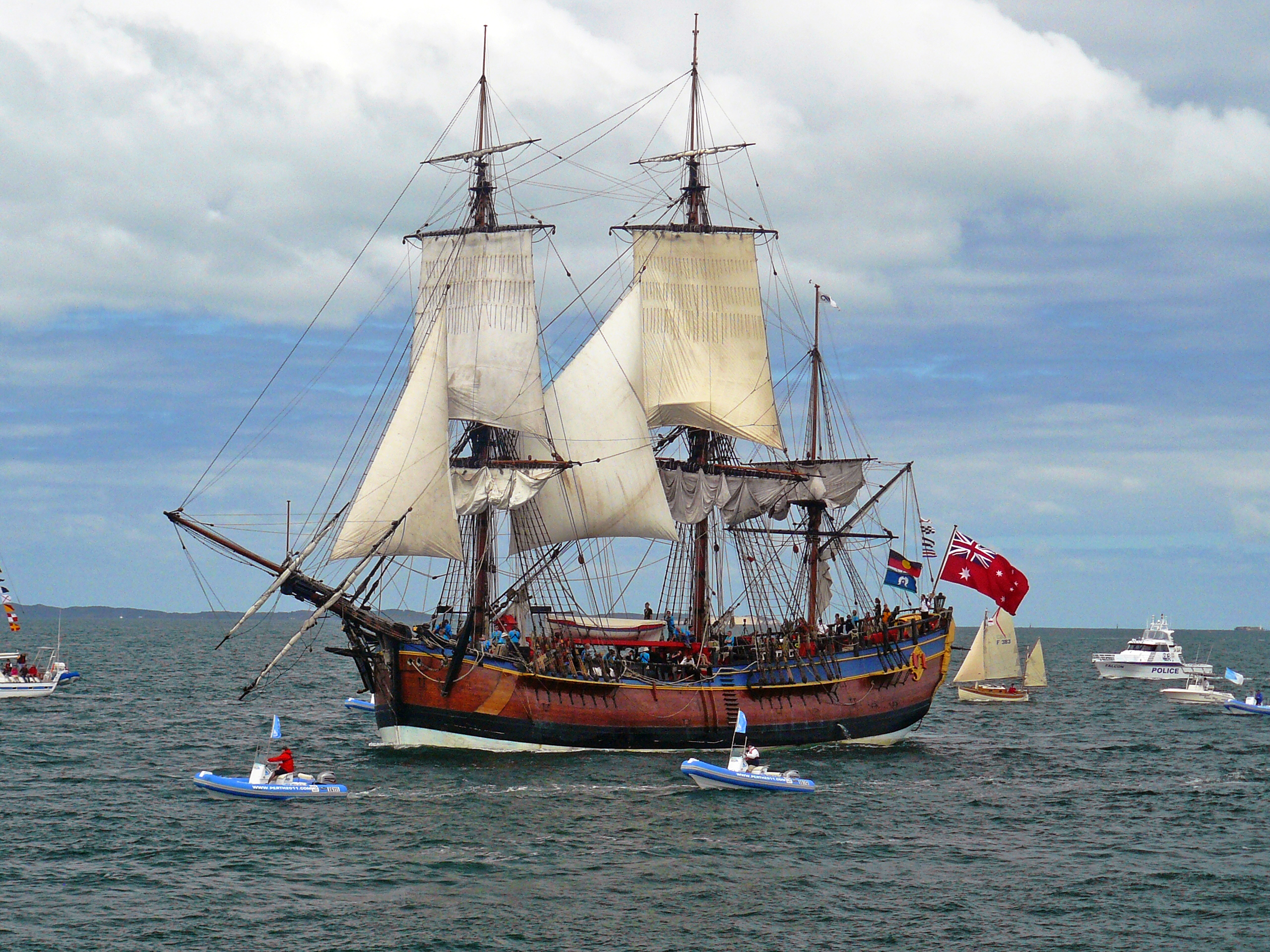 HM Bark Endeavour, Entering the Port of Fremantle, 12-10-2011